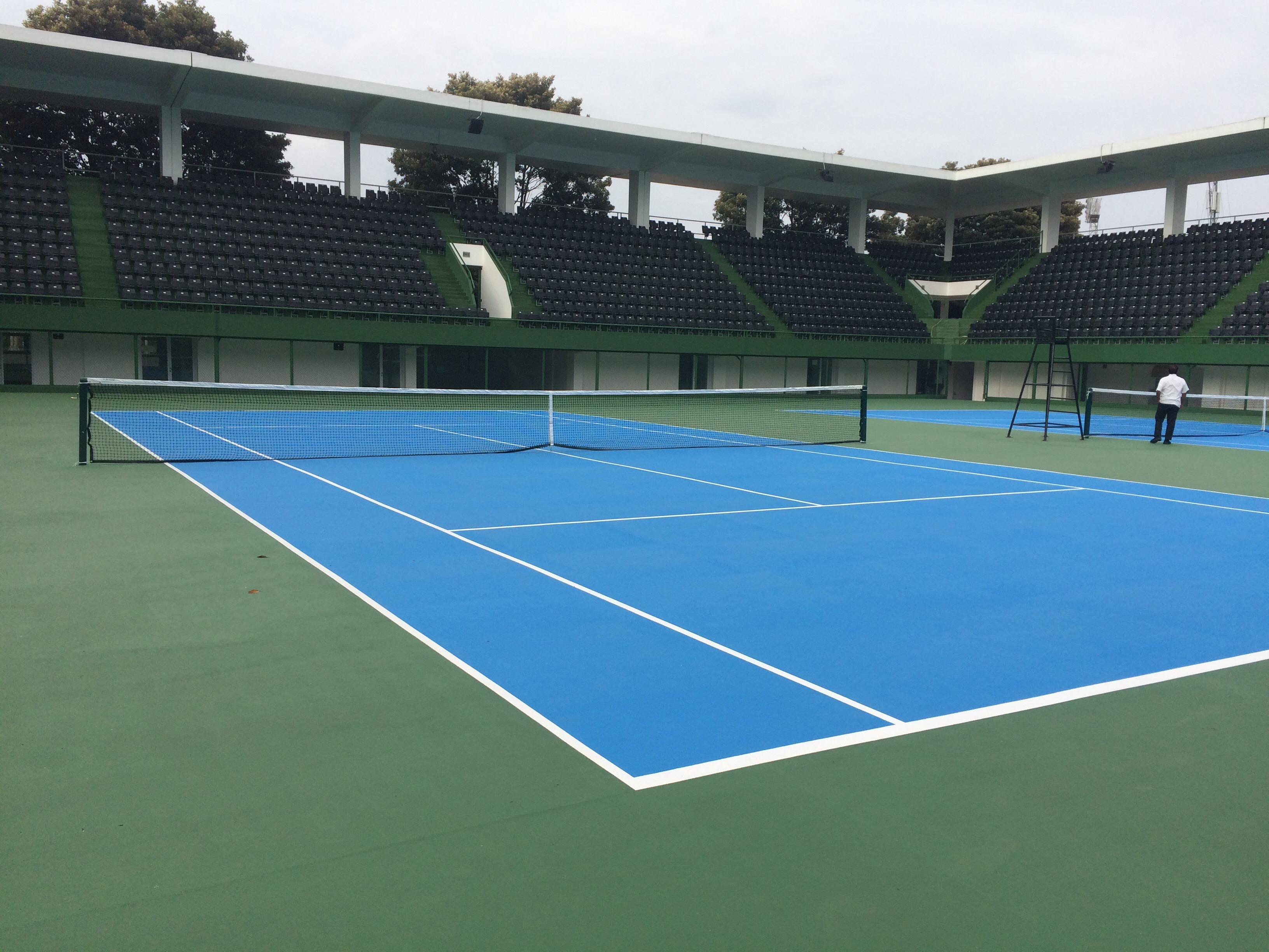 The tennis stadium at the Gelora Bung Karno stadium.